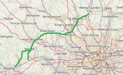 The Hatfield and Reading Turnpike was an English turnpike road created in the 1760s to provide a route that connected the Great North Road with the Holyhead Road and the Bath Road, that avoided London and was shorter in route mileage.